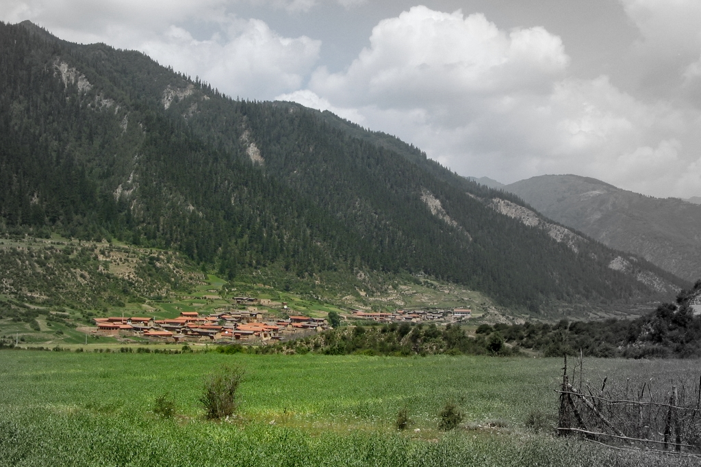 Near Ruoergai See where the photo was taken at Yuan.CC Maps .